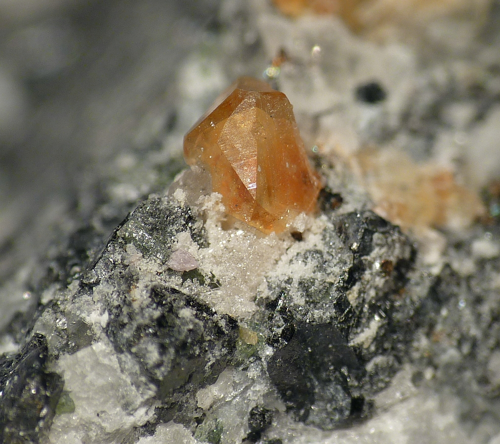 Quintinite Locality: Jacupiranga Mine, Cajati, São Paulo, Brazil Field of view 7 mm. Specimen and photo Leon Hupperichs.